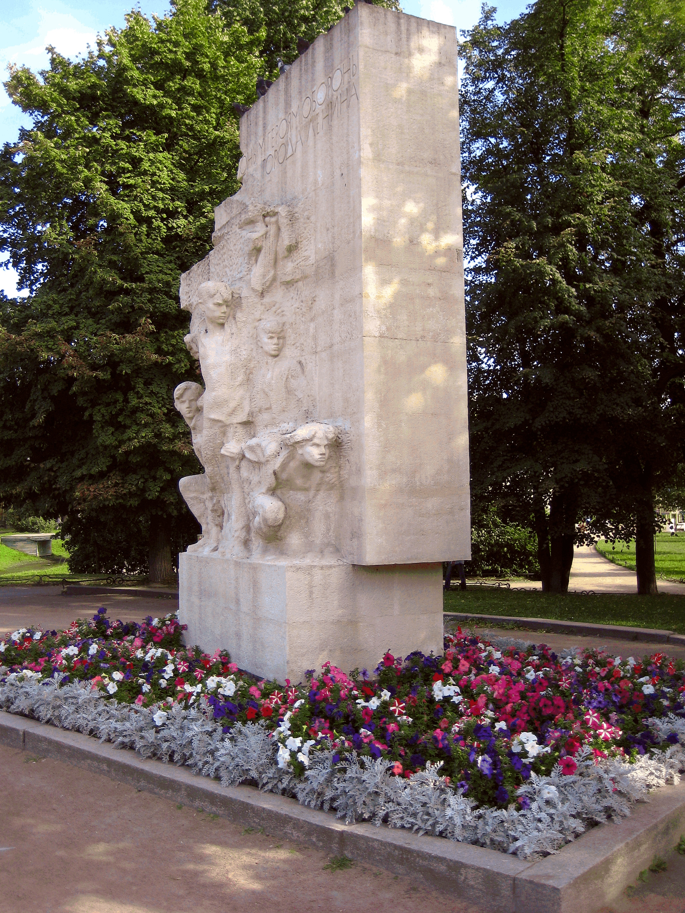 Tauride Garden. Monument to the young heroes of the defense of Leningrad .: Potemkinskaya street, 2, 4 / Kirochnaya street, 50 / Tavricheskaya street, 8. Central district, St. Petersburg